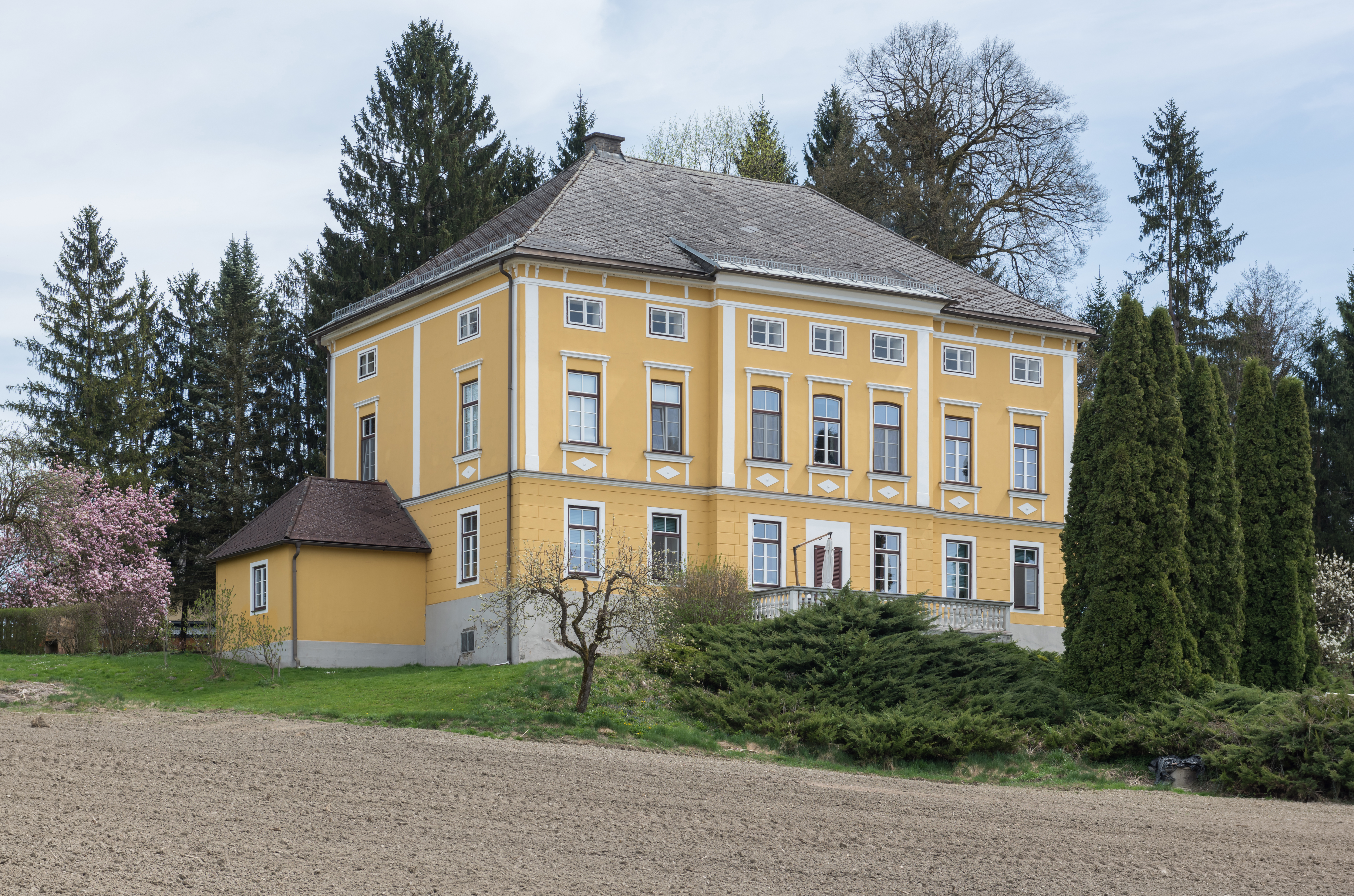 Castle Riedenegg in Lind, market town Grafenstein, district Klagenfurt Land, Carinthia, Austria, EU